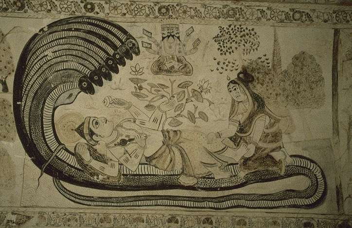 Vishnu reclining on Shesha, as Brahma is born on a lotus from his navel (palace of Bir Singh Dev, Orchha, early 17th c.) ["Orchha," set 1 (of 2), page 1, image 10] (downloaded April 2000)